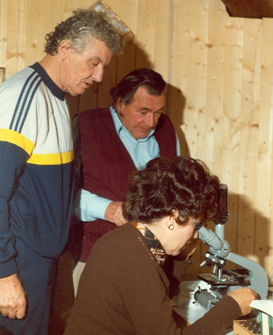 I took this picture about 1985 to Mr and Mrs Cetto in his house.